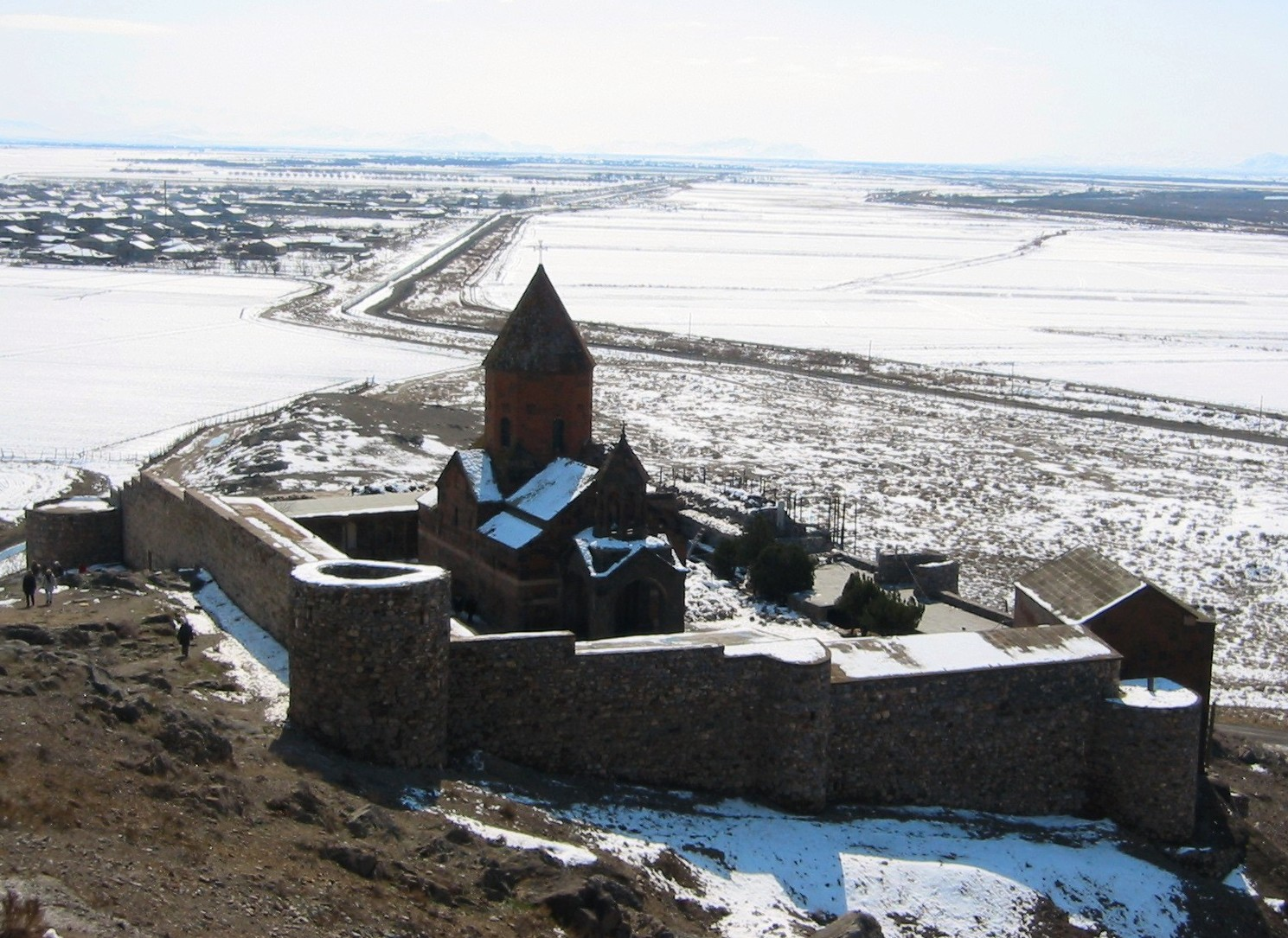 monastery Chor Virap in Armenia. The village of Lusarat at the background.